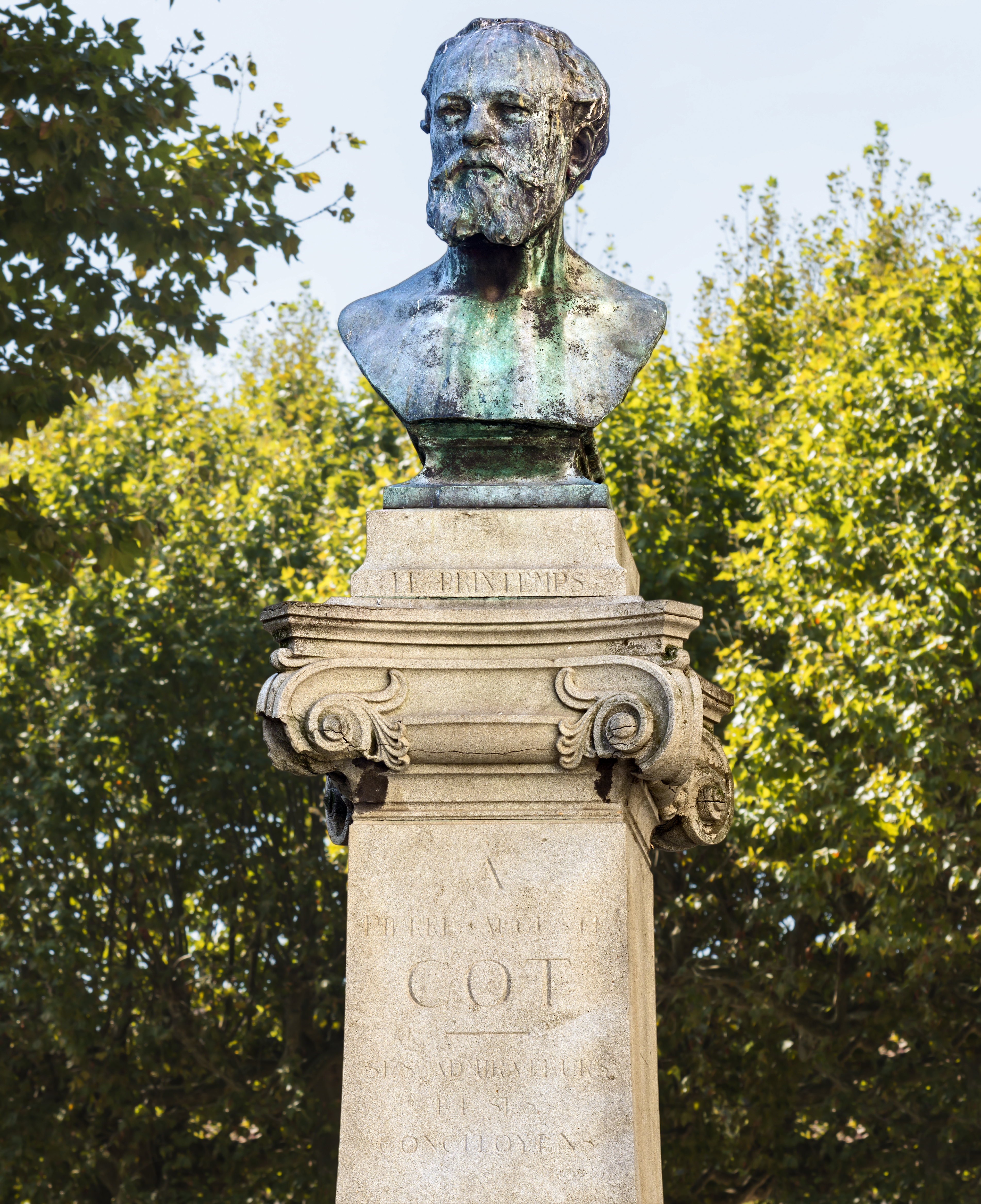 Bédarieux Hérault France - The monument to Pierre Auguste Cot. Bronze bust by Antonin Mercié 1891. Size : 300x400x400 cm